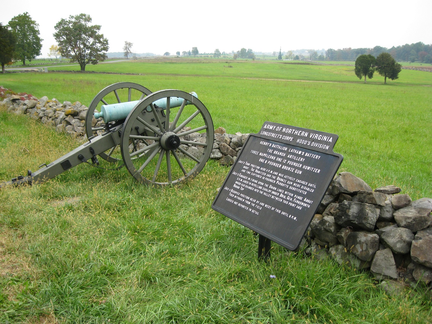 Bronze 6-pounder cannon stands next to a sign that indicates the position of Henry's Confederate Battalion (Latham's and The Branch Artillery) in Hood's Division of Longstreet's Corps at the Gettysburg battlefield. The pale green hue of the cannon indicates that it is a bronze gun.